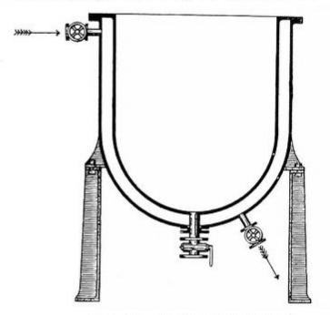 Steam jacketed vessel.